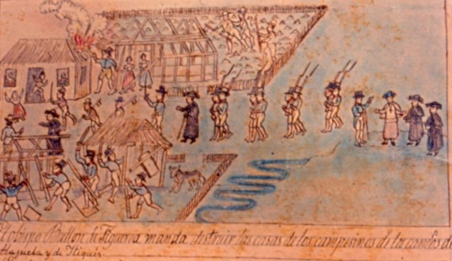 Alajuela 1748